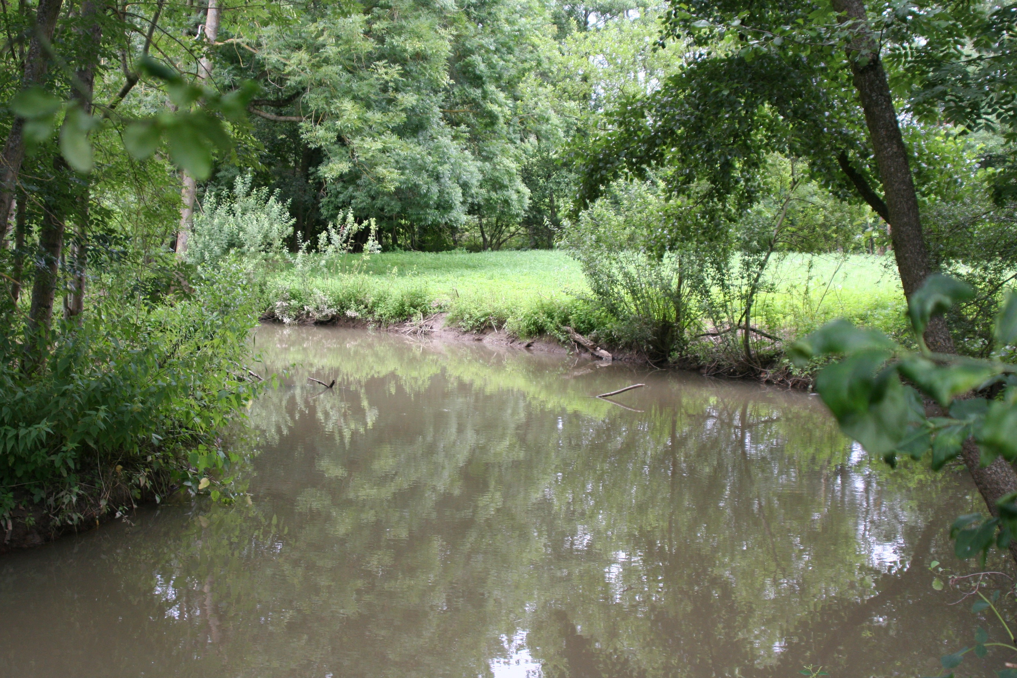 The Gollach river in Aub-Baldersheim